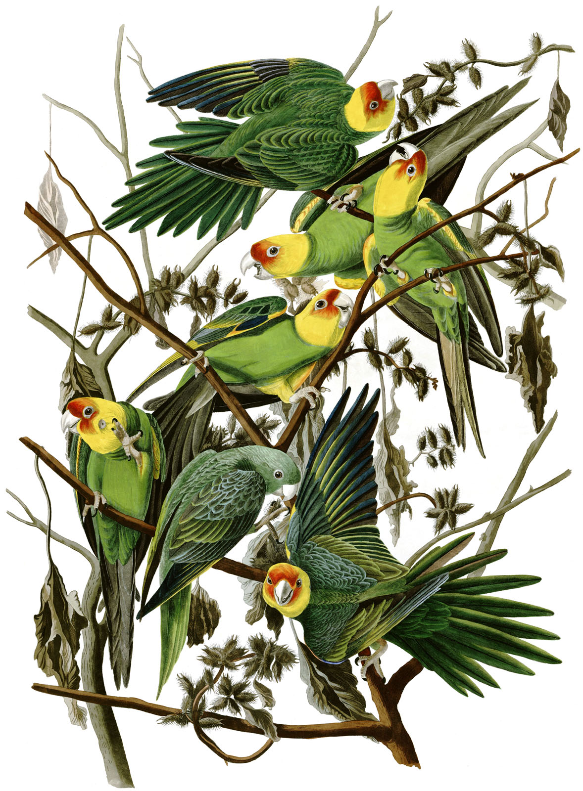 Carolina Parakeet , Conuropsis carolinensis, hand-colored engraving